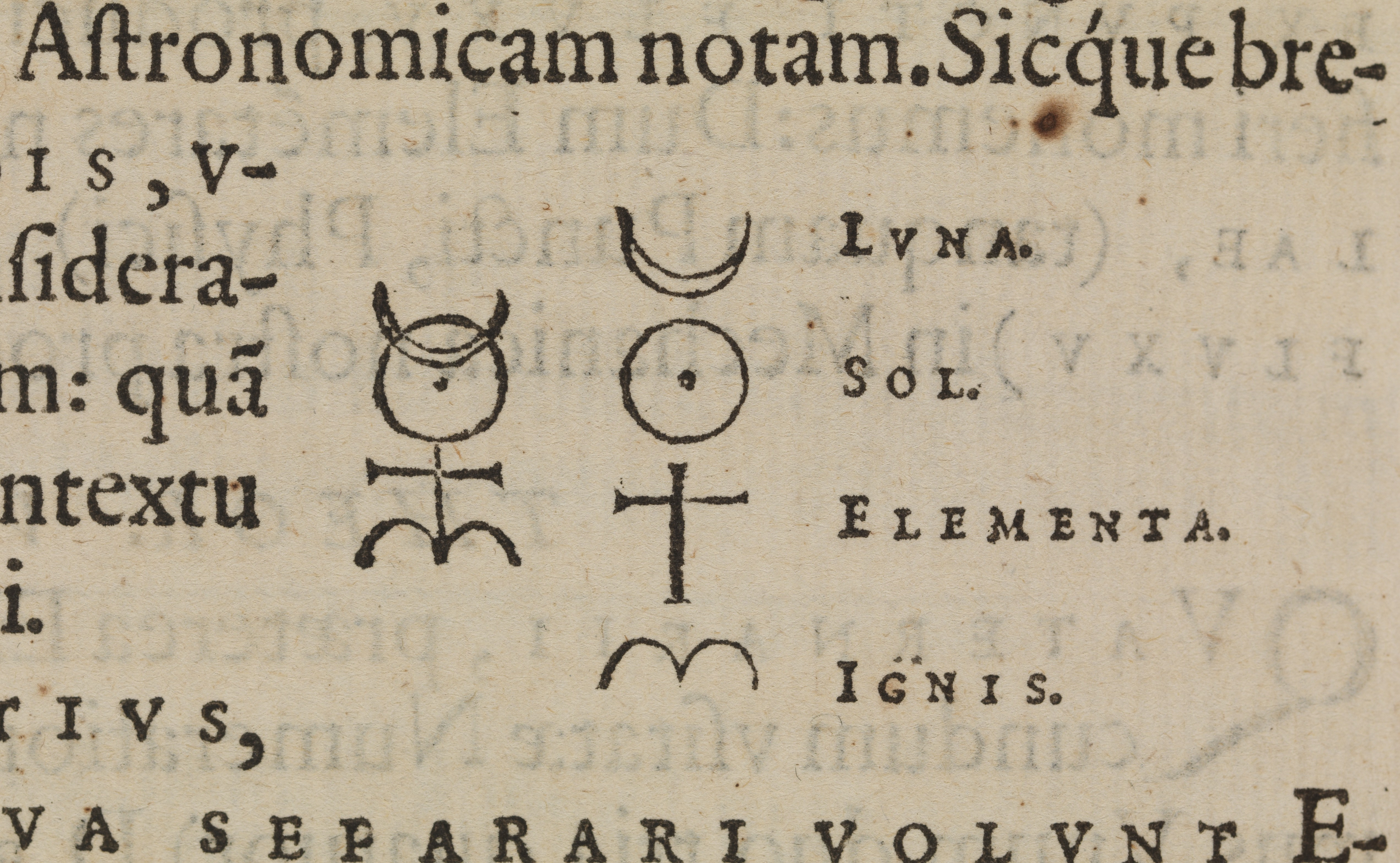 Monas hieroglyphica Illustrations to Theorema X. Rare Books